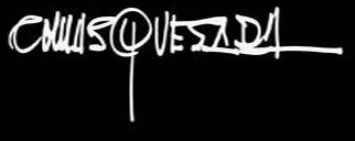 Signature of the Spaiish painter José Comas Quesada